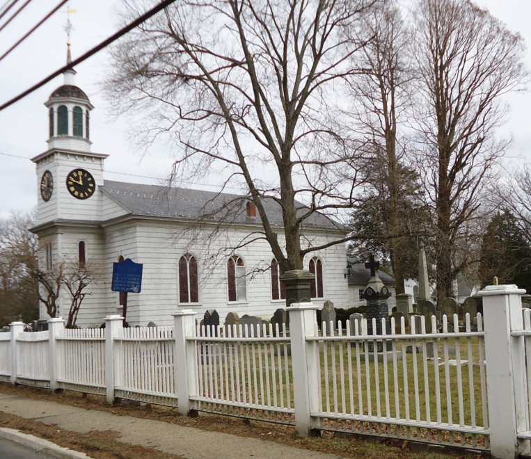 Looking northeast from Rte 35 (Broad Street) at Christ Church Episcopal in Shrewsbury, New Jersey.